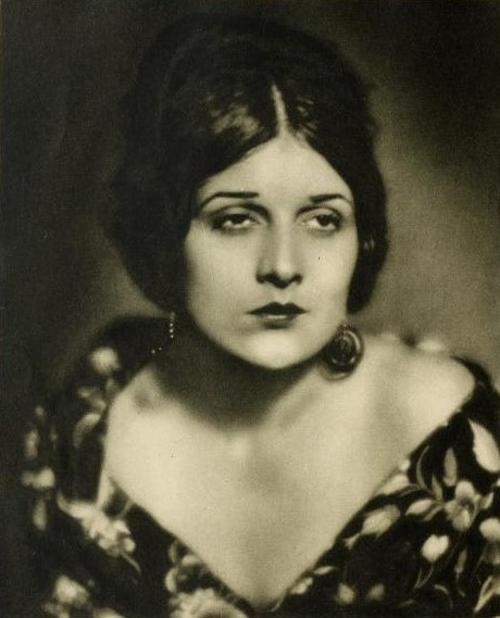 Publicity photo of Evelyn Brent from Stars of the Photoplay. Evelyn Brent was born in Tampa, Florida, in 1899, and educated in New York City. One day she entered one of the former studios on the Hudson, obtained a small part and left school to win fame in films. She used the name of Betty Riggs, but later dropped it for the more euphonious name of Evelyn Brent. A great deal of her stage and screen work has been done abroad. Miss Brent, in private life, is the wife of B. P. Fineman, motion picture producer. She is five feet, four inches tall, weighs 112 pounds, has brown hair and eyes.